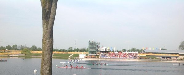 The canoe kayak flatwater venue for the 2015 Pan American Games